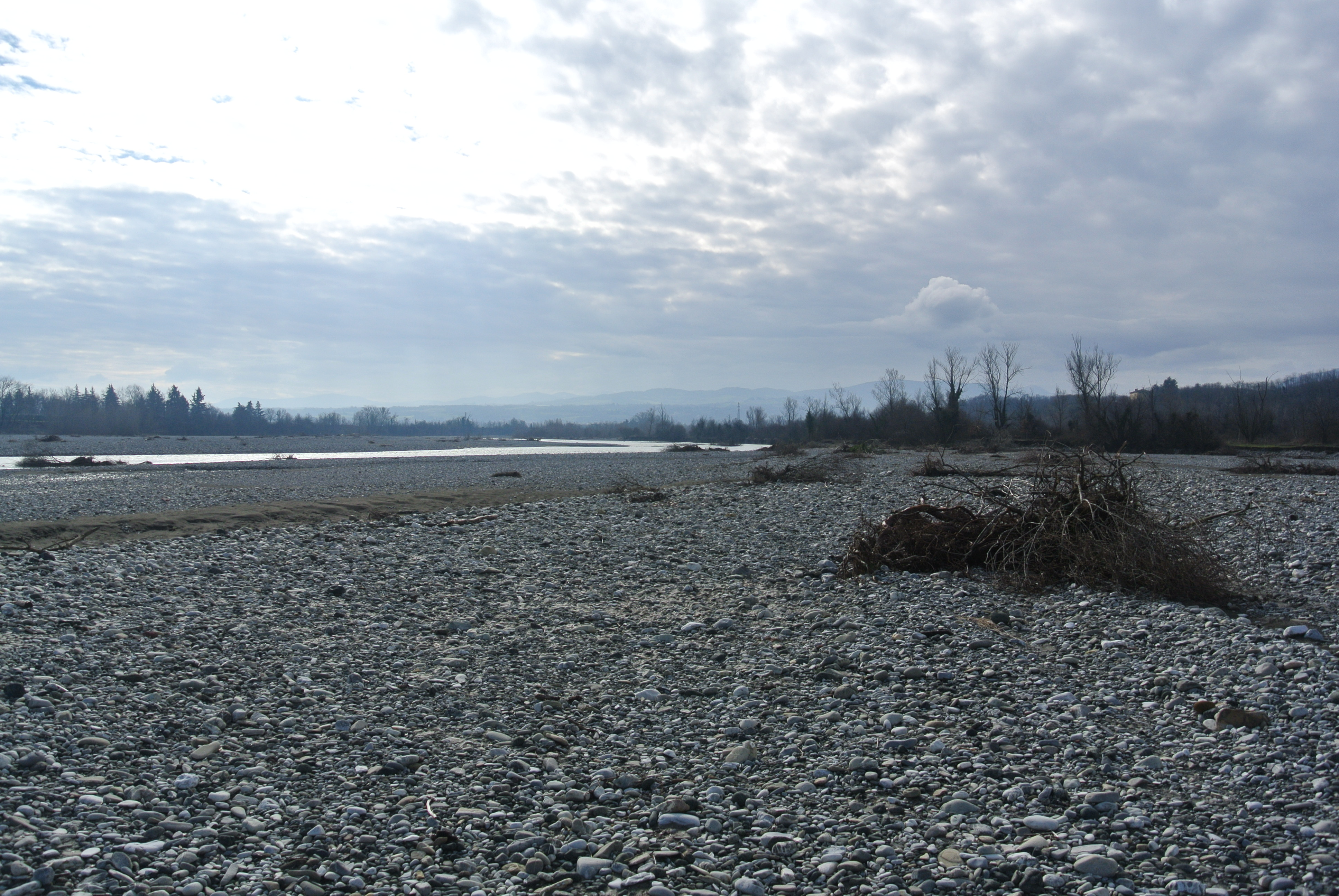 River Trebbia near Rivalta (prov. Piacenza, Italy)